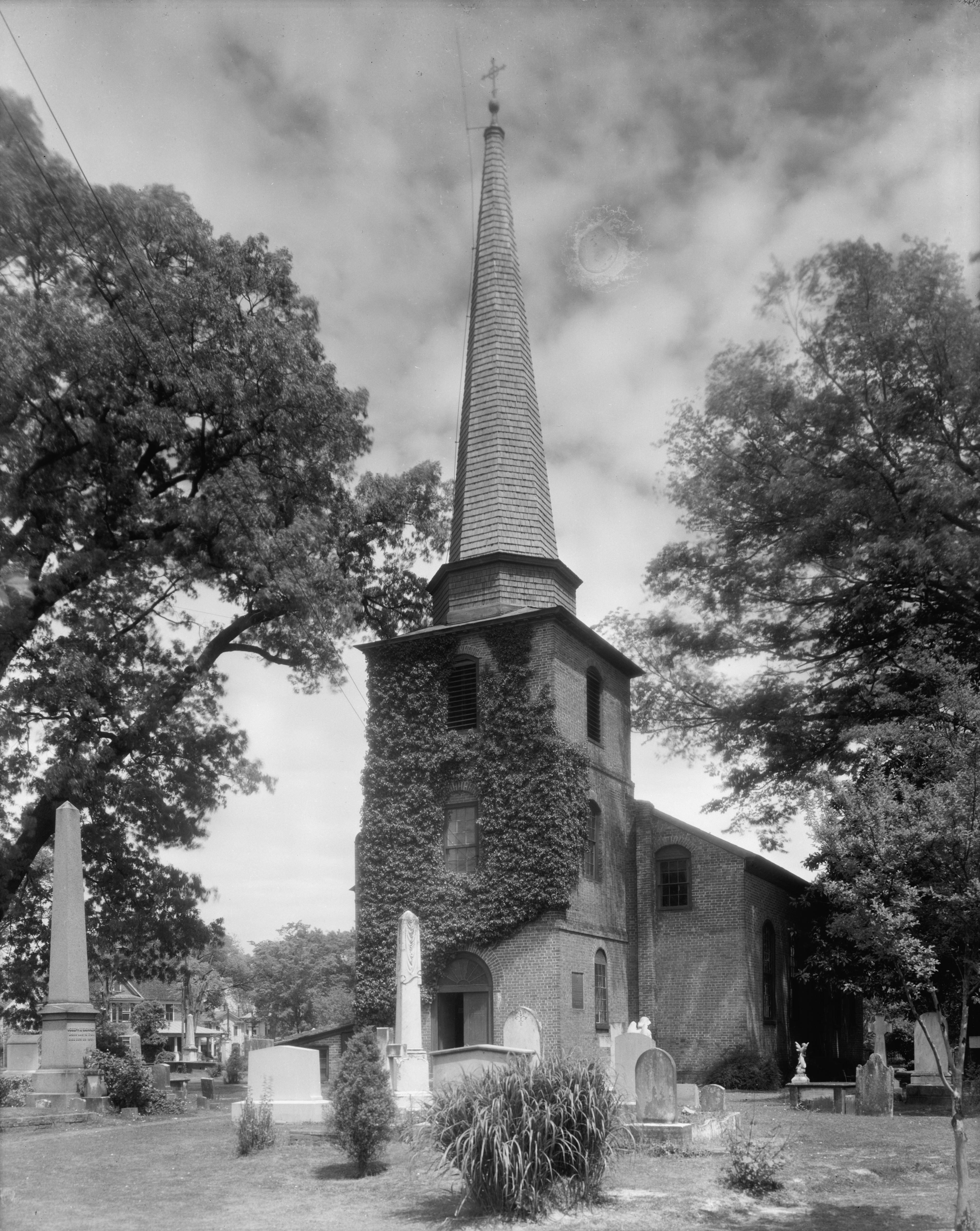 St. Paul's Church, Edenton (Chowan County, North Carolina) cropped This image is available from the United States Library of Congress's Prints and Photographs division under the digital ID -csas-02383.This tag does not indicate the copyright status of the attached work. A normal copyright tag is still required. See Commons:Licensing for more information. Rights Advisory: No known restrictions on publication. This work is in the public domain in the United States because it is a work prepared by an officer or employee of the United States Government as part of that person’s official duties under the terms of Title 17, Chapter 1, Section 105 of the US Code. Note: This only applies to original works of the Federal Government and not to the work of any individual U.S. state, territory, commonwealth, county, municipality, or any other subdivision. This template also does not apply to postage stamp designs published by the United States Postal Service since 1978. (See § 313.6(C)(1) of Compendium of U.S. Copyright Office Practices). It also does not apply to certain US coins; see The US Mint Terms of Use. This file has been identified as being free of known restrictions under copyright law, including all related and neighboring rights.